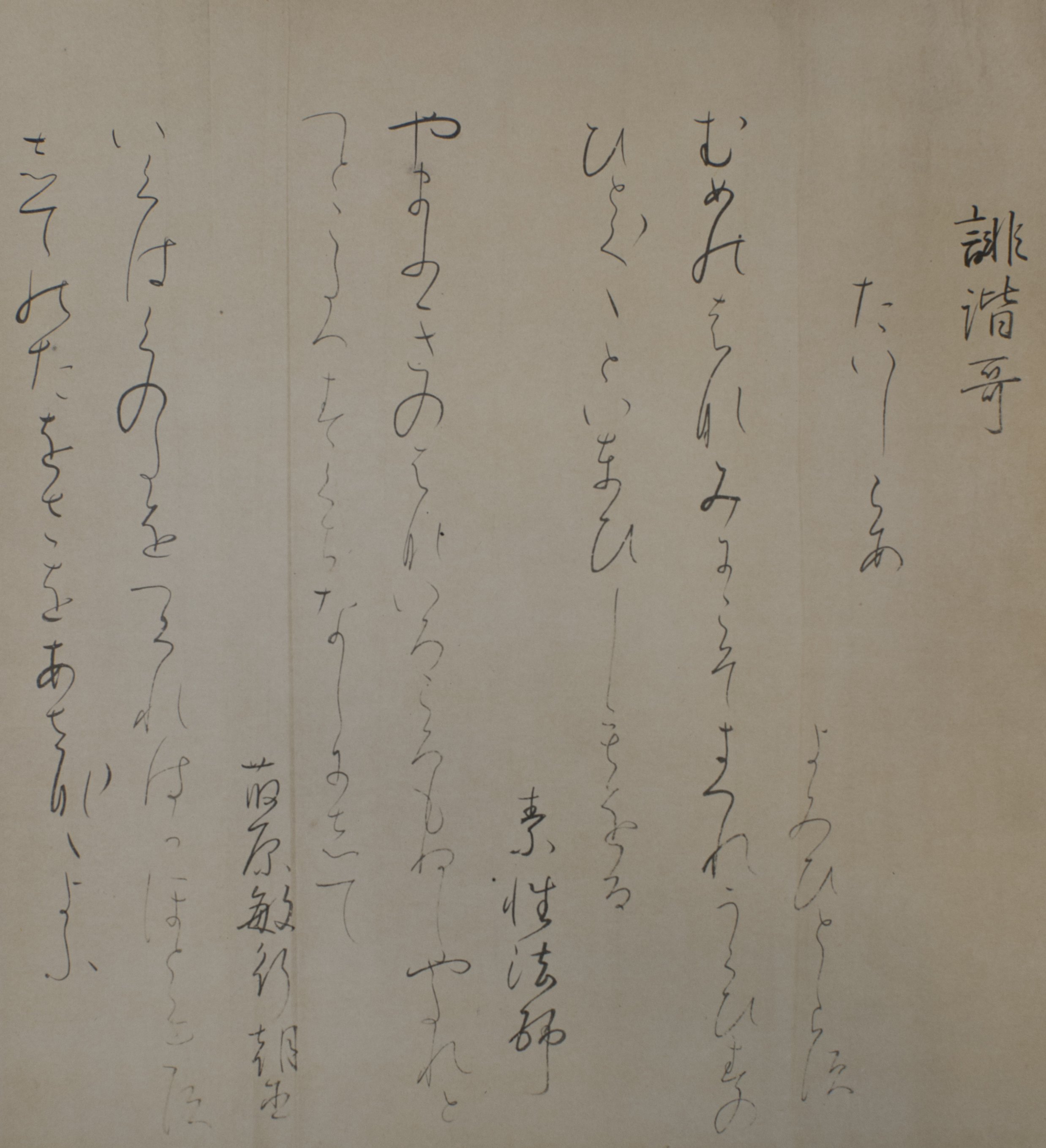 National Treasure of Japan